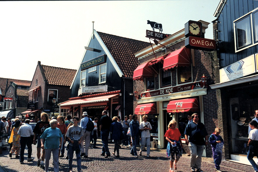 Volendam, North Holland, Netherland 福伦丹